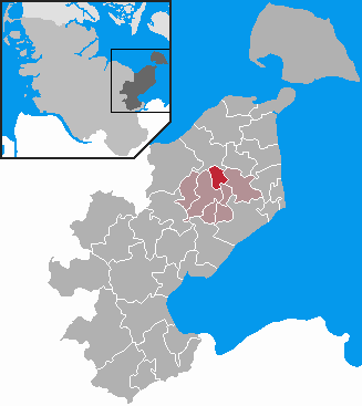 This map shows the area of the Gemeinde (municipality) Damlos in the Kreis (district) Ostholstein, Schleswig-Holstein, Germany.